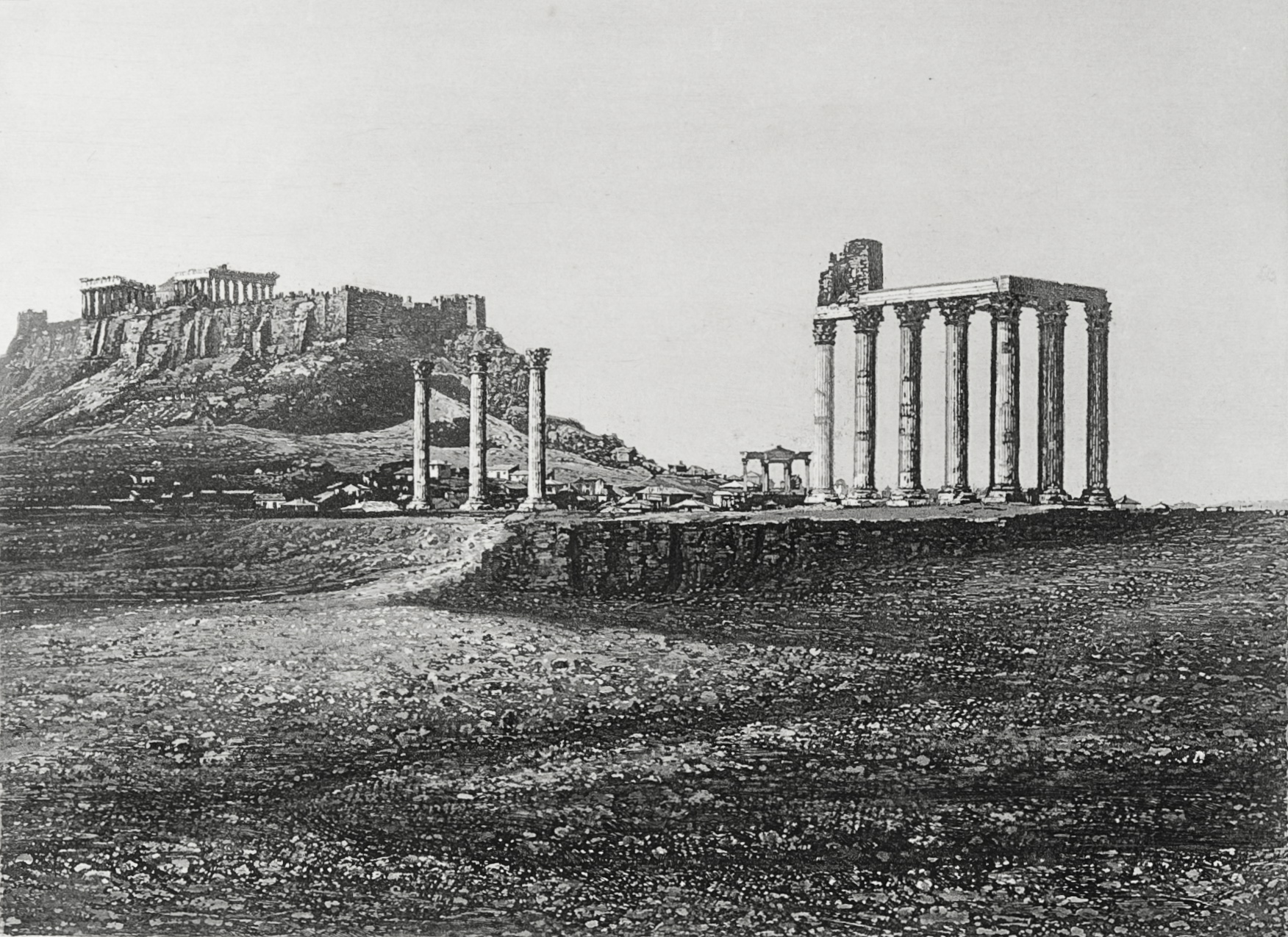 The image shows, in the foreground, the columns of the Olympian Zeus and, in the background, the Acropolis. The notes of the photographer (see below) provide more details about the image. Print of an engraving based on a daguerreotype photograph taken by Pierre-Gustave Joly (Joly de Lotbinière) in October, 1839. Engraved by Appert. Published with the caption L'Acropolis à Athènes in Excursions daguerriennes, Noël Paymal Lerebours publisher, Paris, first published in 1840 and 1841. This reproduction is from a reedition published in 1842.Excerpt from the notes of Pierre-Gustave Joly:"October 1839. View of the columns of Olympian Jupiter, taken from the left bank of the Ilyssos, from the stadium. There are 16 columns; above the last two columns of the main group, there is a small rough structure into which had lived an ascetic or holy man, so the people call those columns the fool's columns ; at their foot is seen the Arch of Hadrian on which is written on the side: here is the city of Hadrian. That arch is much taller than it looks here, the level of the base being below that of the columns of Jupiter. In the backgroud the Acropolis and the temple of Minerva or Parthenon."